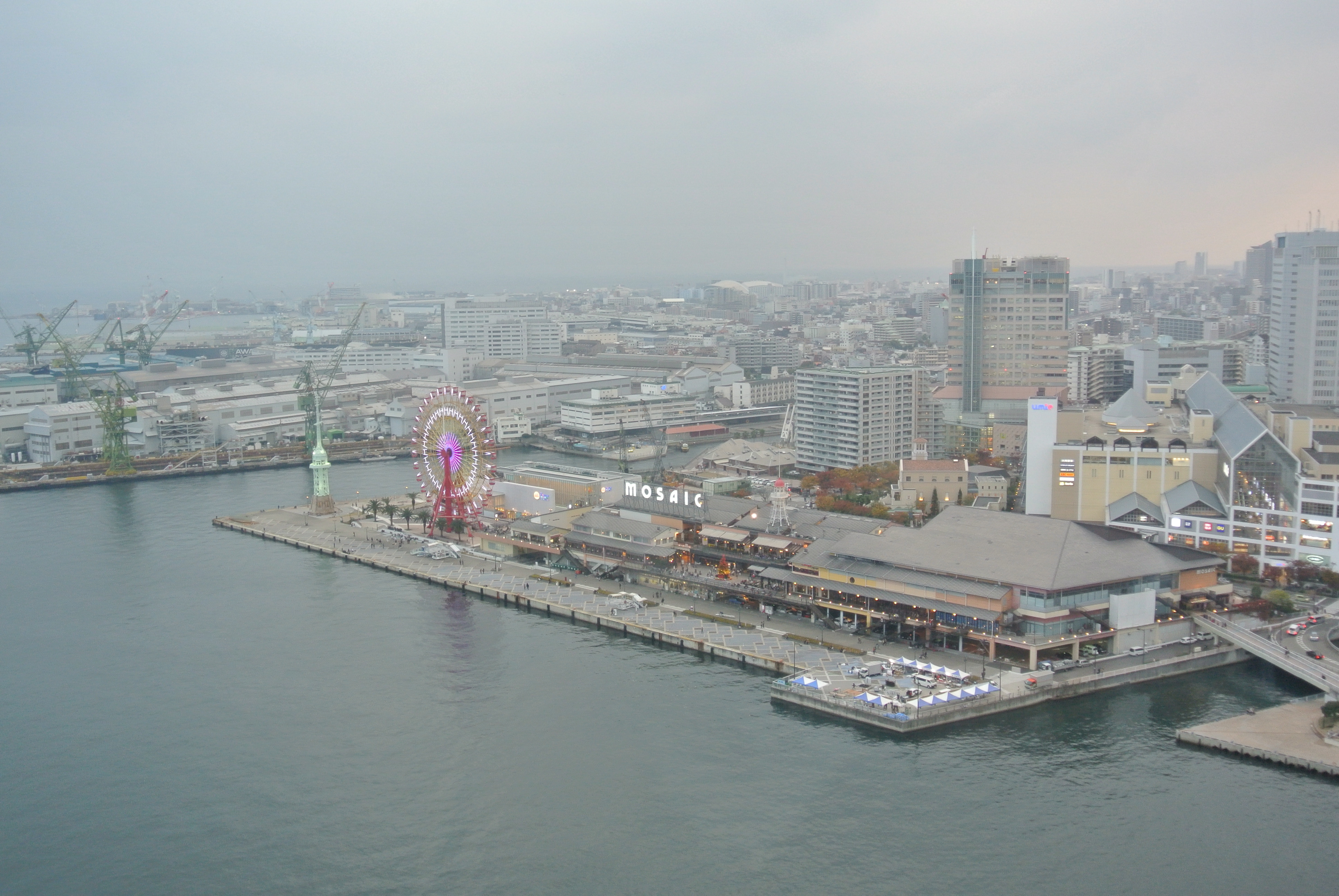 Mosaic, Kobe